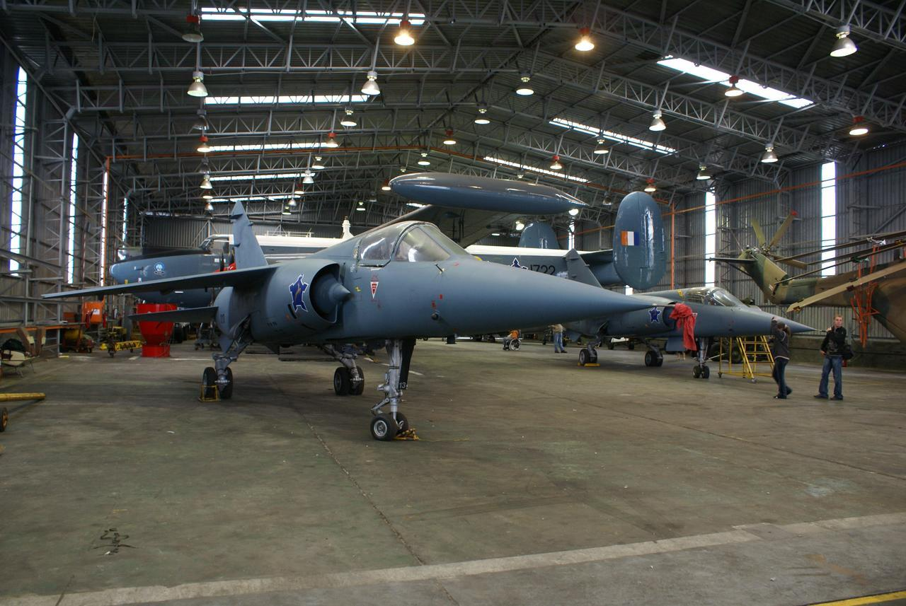 Two SAAF Mirage F1CZ's in the foreground and Avro Shackleton behind with part of a Super Frelon visible on right. Aircraft that form part of the SAAF Museum at Ysterplaat AFB. These planes still fly in the annual air show. Photo was hand held with steady shot on at 1/30sec. Visit the SAAF Museum online at